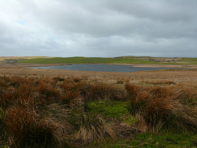 Llyn Hir Yn edrych i lawr at Lyn Hir oddi ar Fynydd Waun Fawr / Looking down to Llyn Hir from Mynydd Waun Fawr